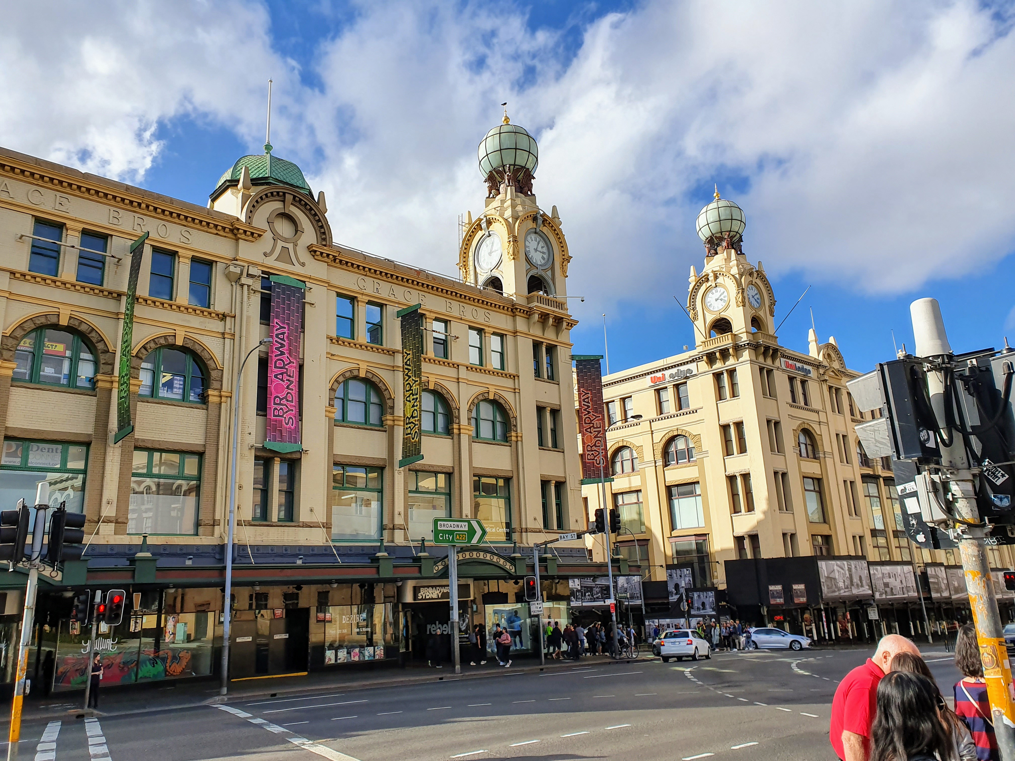 Shot of the Broadway Shopping Centre building, across Parramatta Road